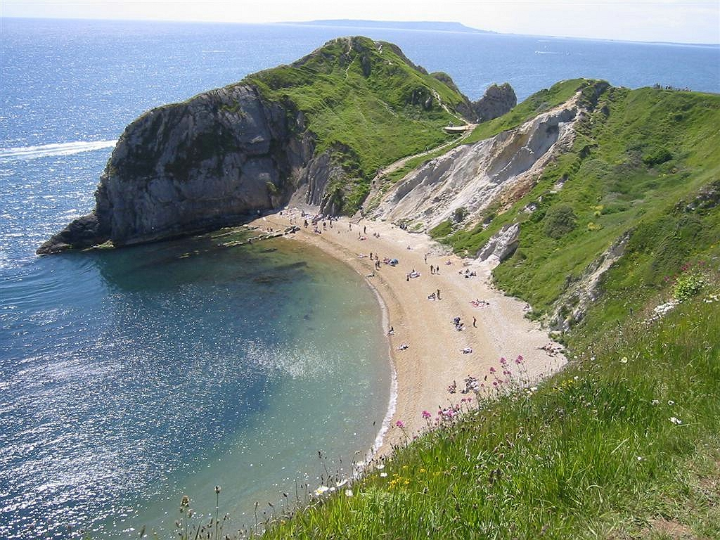 Durdle Door, England